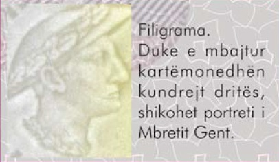 Filigrama